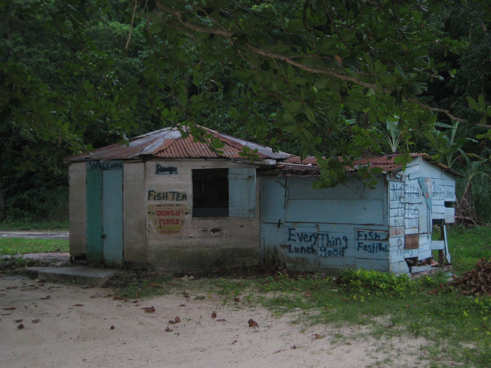 Dungu's Place, fish tea shack in Port Antonio, Jamaica November 9, 2007. Photo by mixedeyes (Flickr) attribution required